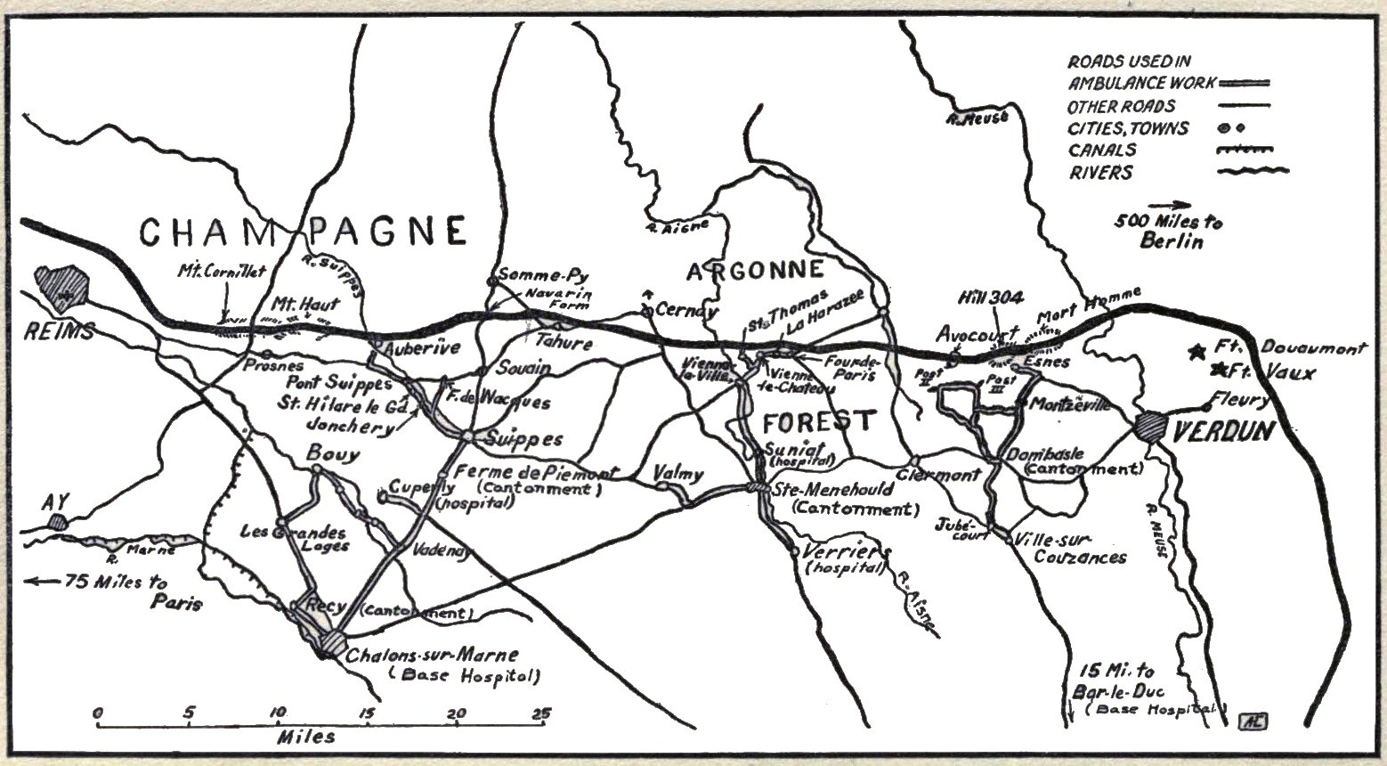 World War I in Reims-Verdon sector, France. Original caption: "The front from reims to verdun, where section xii worked."